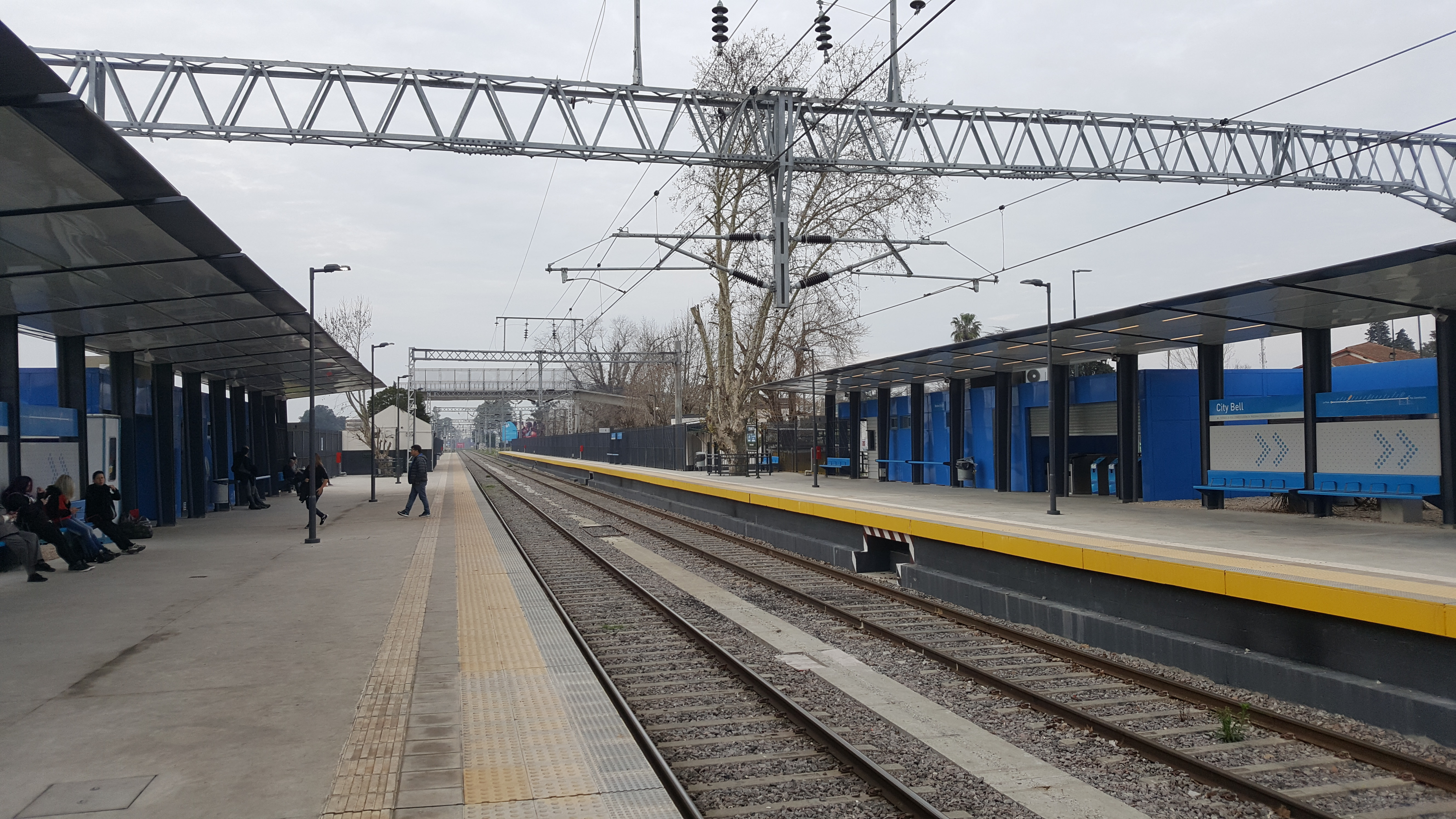 A photo of the renovated platform at the City Bell Station along the Roca Line in City Bell, La Plata, Argentina